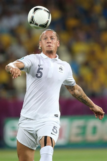 Philippe Mexès at the Euro 2012 match against Sweden